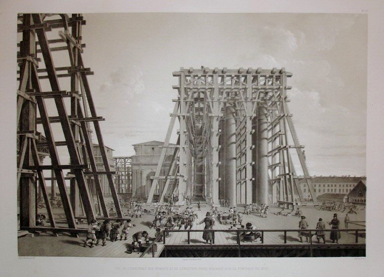 Building of Saint Isaac's Cathedral in Peterburg. Lithography by Jules Arnout, 1845